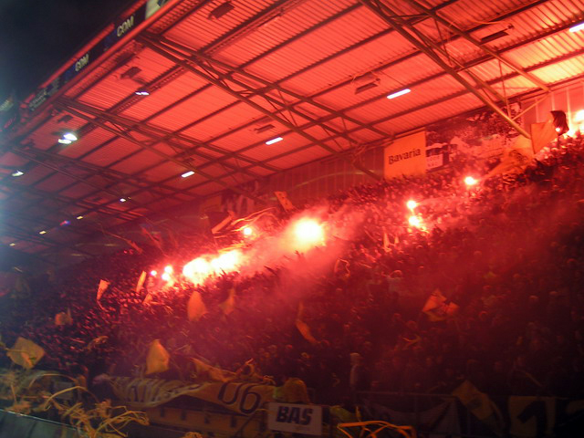 2007: NAC - PSV for the KNVB Cup. NAC Fans in action